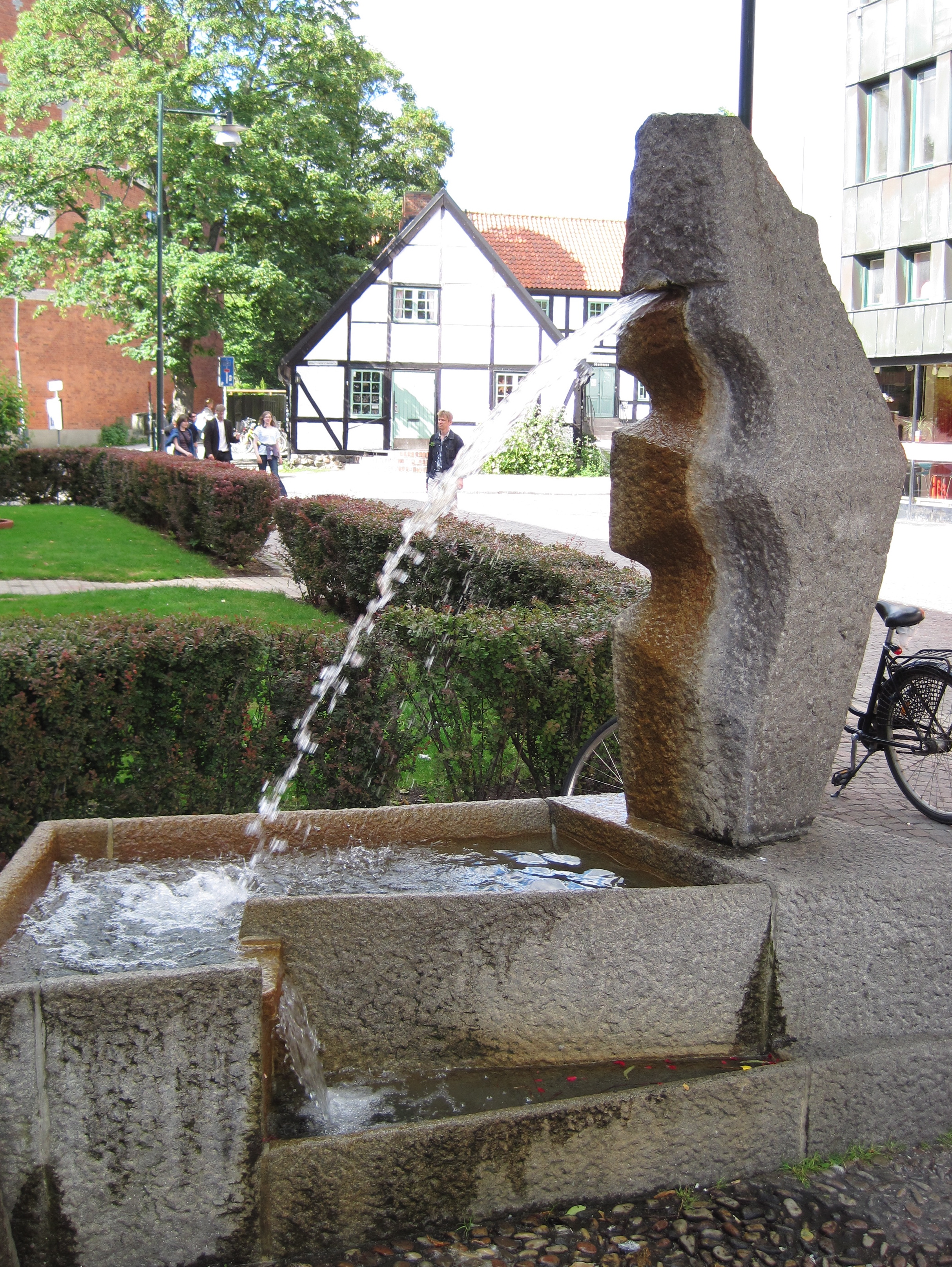 Fossil komposition (also known as Hillfontänen), statue/fountain by Arne Jones from 1955; situated at the corner of Skomakargatan and Kiliansgatan in Lund, Sweden. The statue is inspired by drawings by Carl Fredrik Hill made durings his period of mental illness.